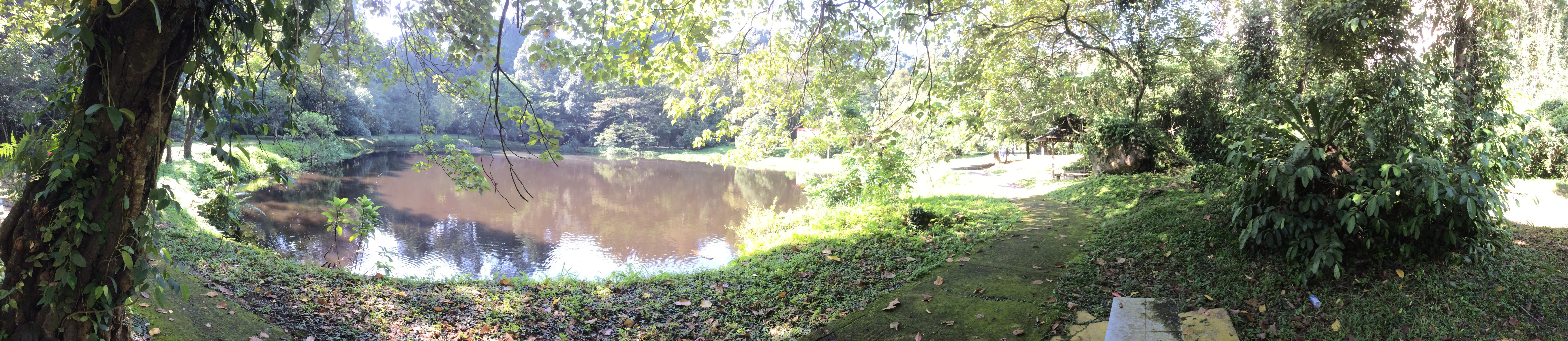 Nature View